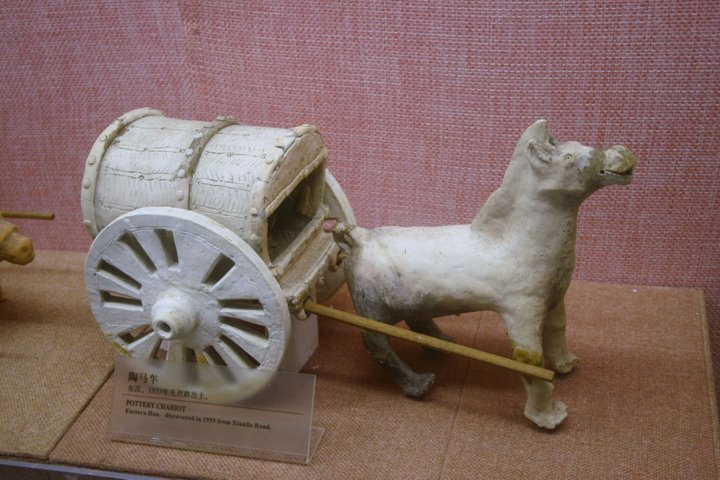 A Chinese pottery model of a horse-drawn, roofed chariot from the Eastern Han (25–220 CE) period.